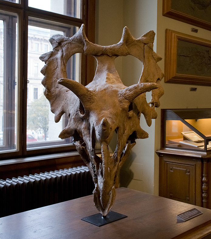 Spiclypeus, Vienna Natural History Museum, Austria, 2014